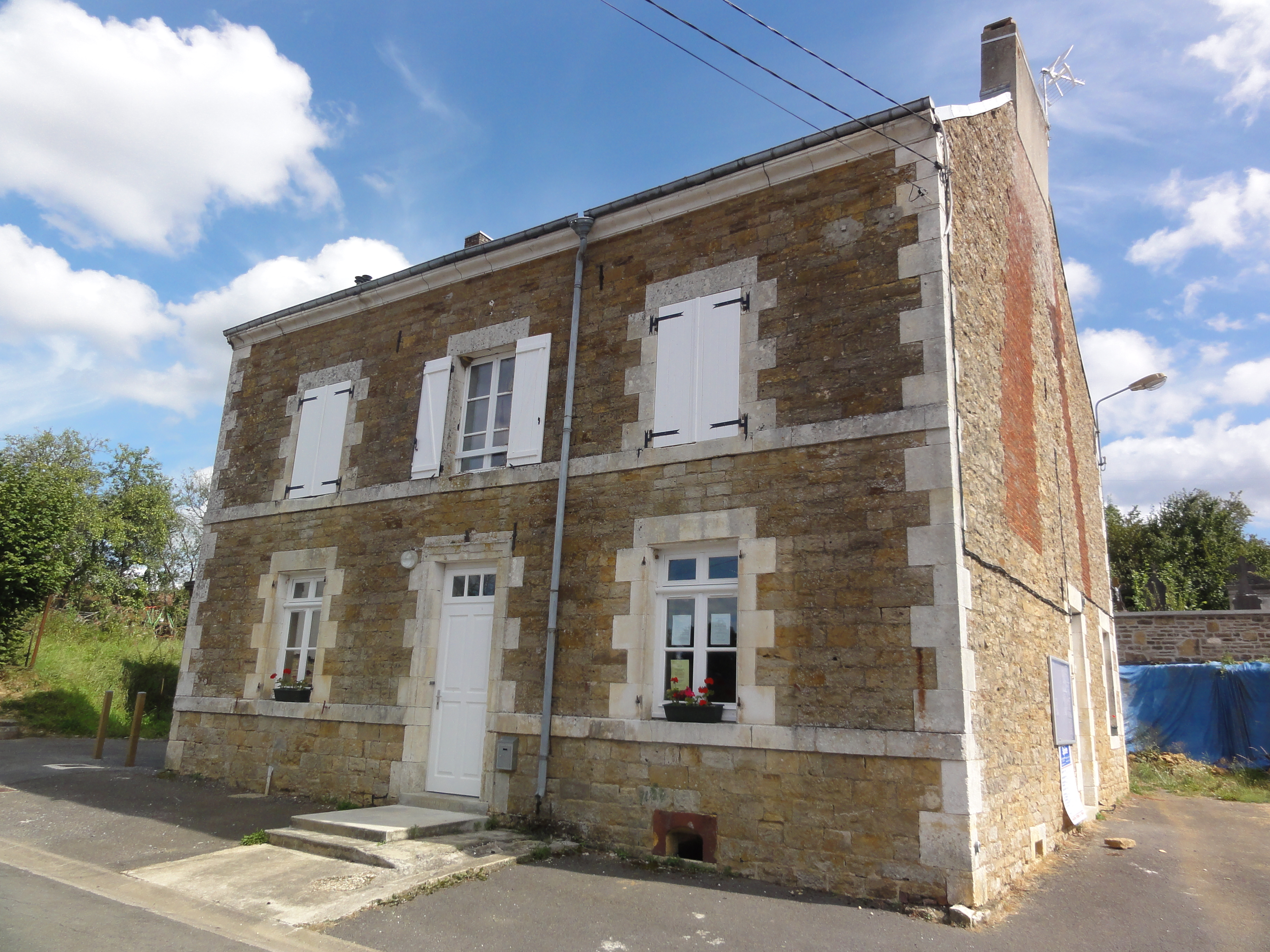 Étalle (Ardennes) mairie